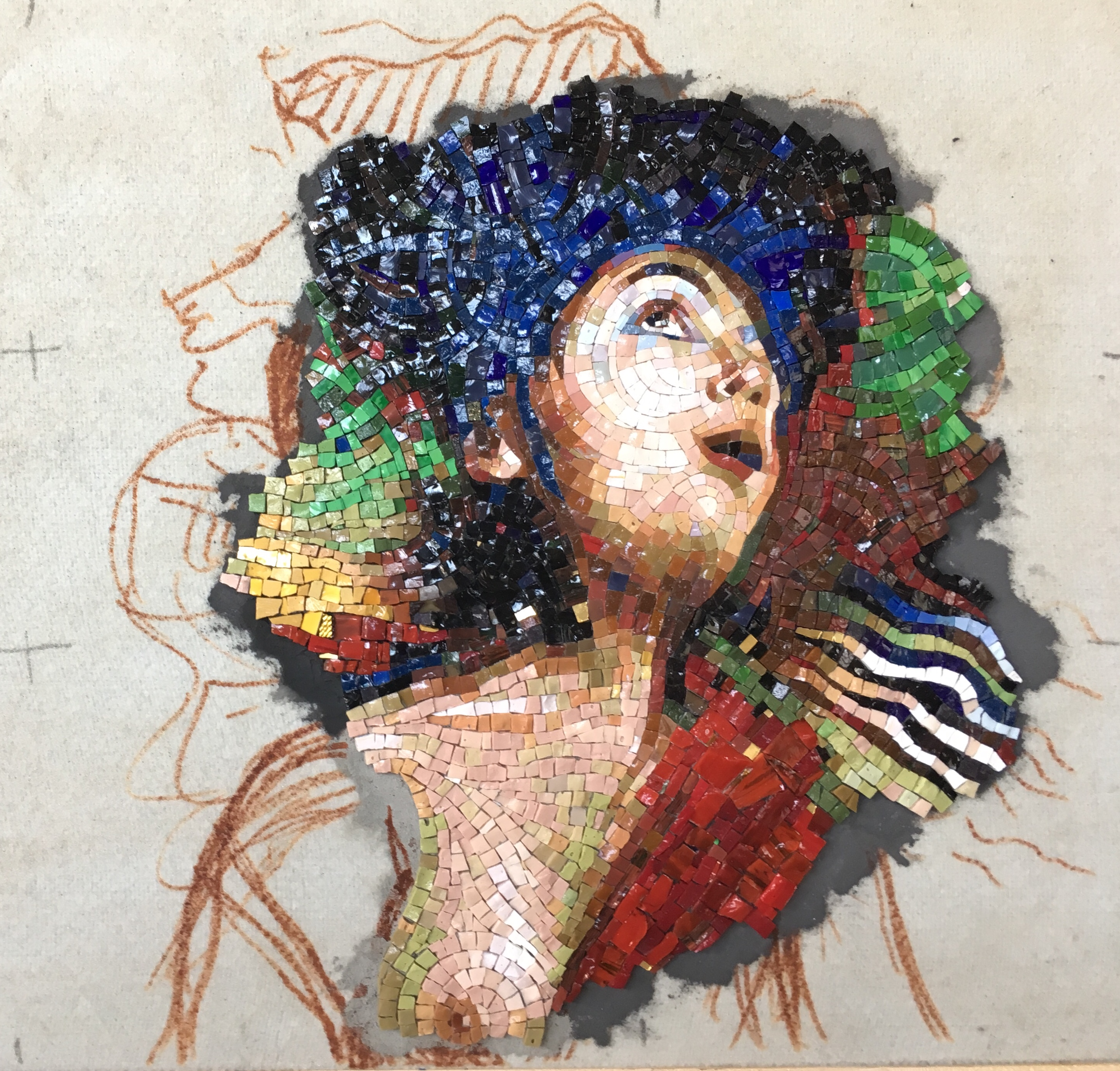 TRêve, tryptique dessin, peinture et mosaïque. Collection privée, 2018.